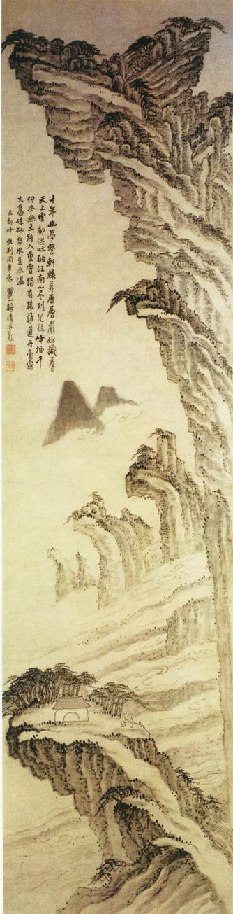 Tiandu Peak of Mount Huangshan (天都峰). Ink on paper, 184.2 x 48.5 cm. Hanging scroll. Palace Museum, Beijing. See Barnhart, R. M. et al. (1997). Three thousand years of Chinese painting. New Haven, Yale University Press. ISBN 0-300-07013-6. Page 274.